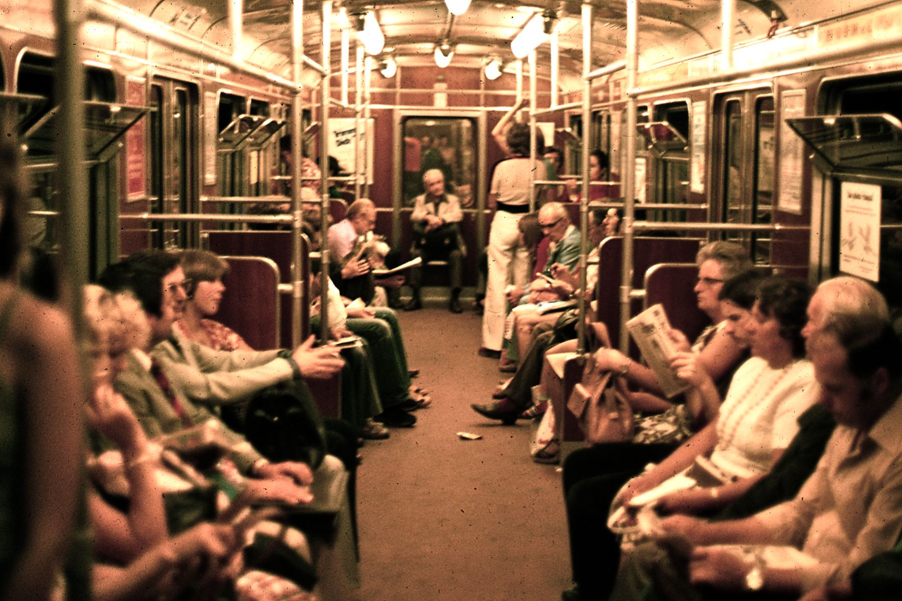 Interior of Berlin U-bahn car, 1977.jpg Other information Photo by George Garrigues